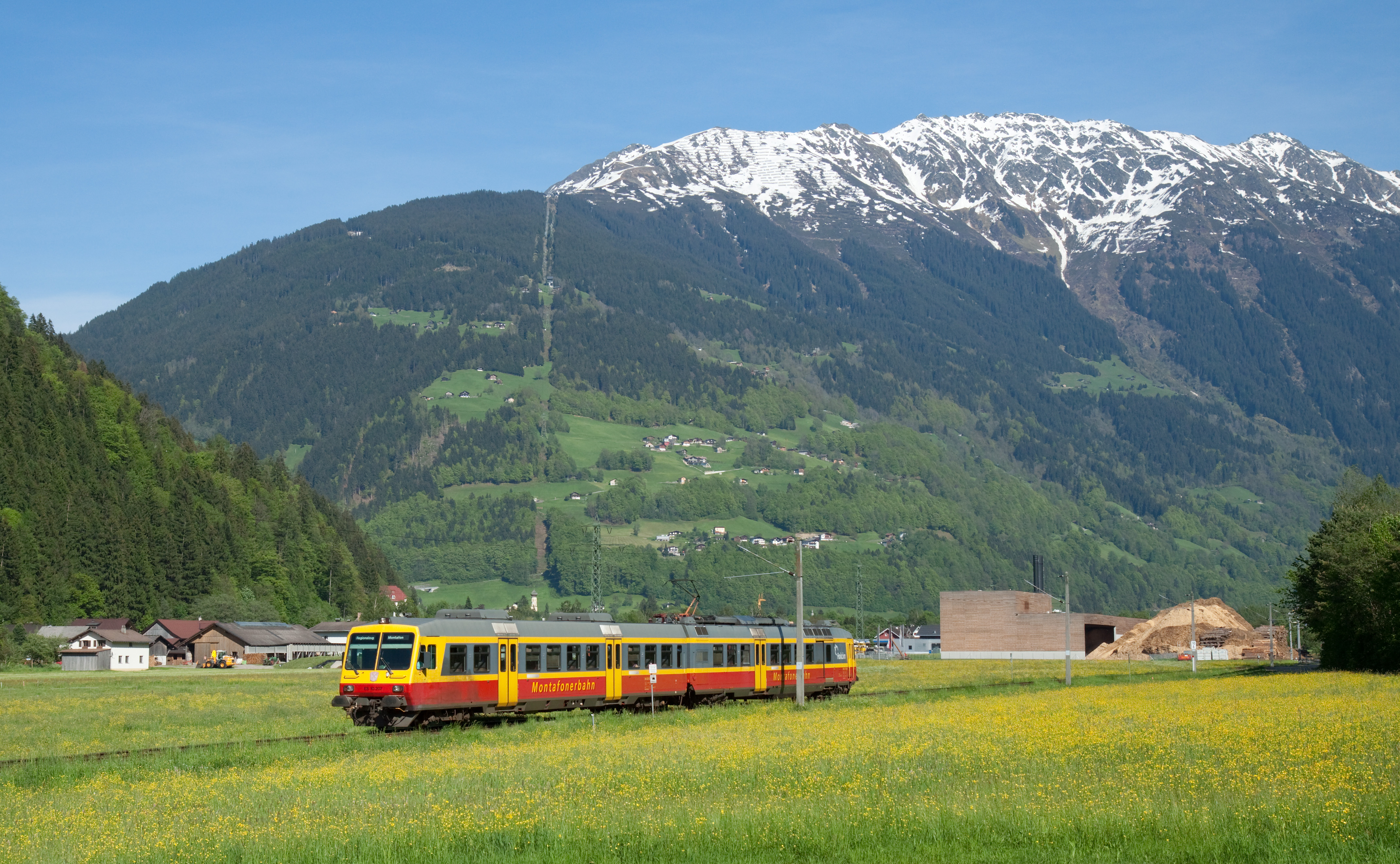 Montafonerbahn ET/ES 10, largely identical to the SBB-CFF-FFS RBDe 560 "NPZ" trainsets, between Tschagguns and Kaltbrunnen (Montafon).